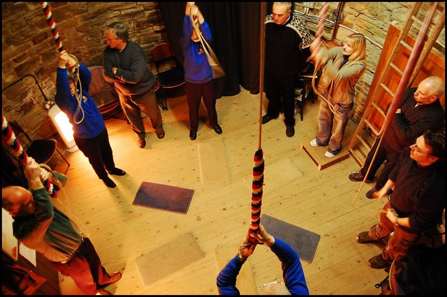 Saltaire United Reformed Church Bell ringing practice Unusually for a non-conformist church the tower houses six bells. The bells were rung for the last time to celebrate the signing of the Armistice in 1918, and by 1922 were in a bad way when inspected by Taylors. They recommended a new frame and fittings, but no action was taken.. By the 1930s YACR Reports were listing practice ringing by arrangement with Alfred Riley, which suggests wishful thinking about their condition. By 1936 they had been officially declared unringable. The YACR Report for 1937/38 shows Riley as deceased, and this is the last mention of Saltaire in the annals of the Association. It is likely that interest in the bells died along with their last ringer, and they were removed during the Second World War and sold for scrap for £85. They were reinstated in September 2003, and as is the tradition each bell is named. One is named Titus, another is Jonathan. The bells were cast in Eindhoven, Holland, by Royal Eijsbout Foundry. For many more Church pictures